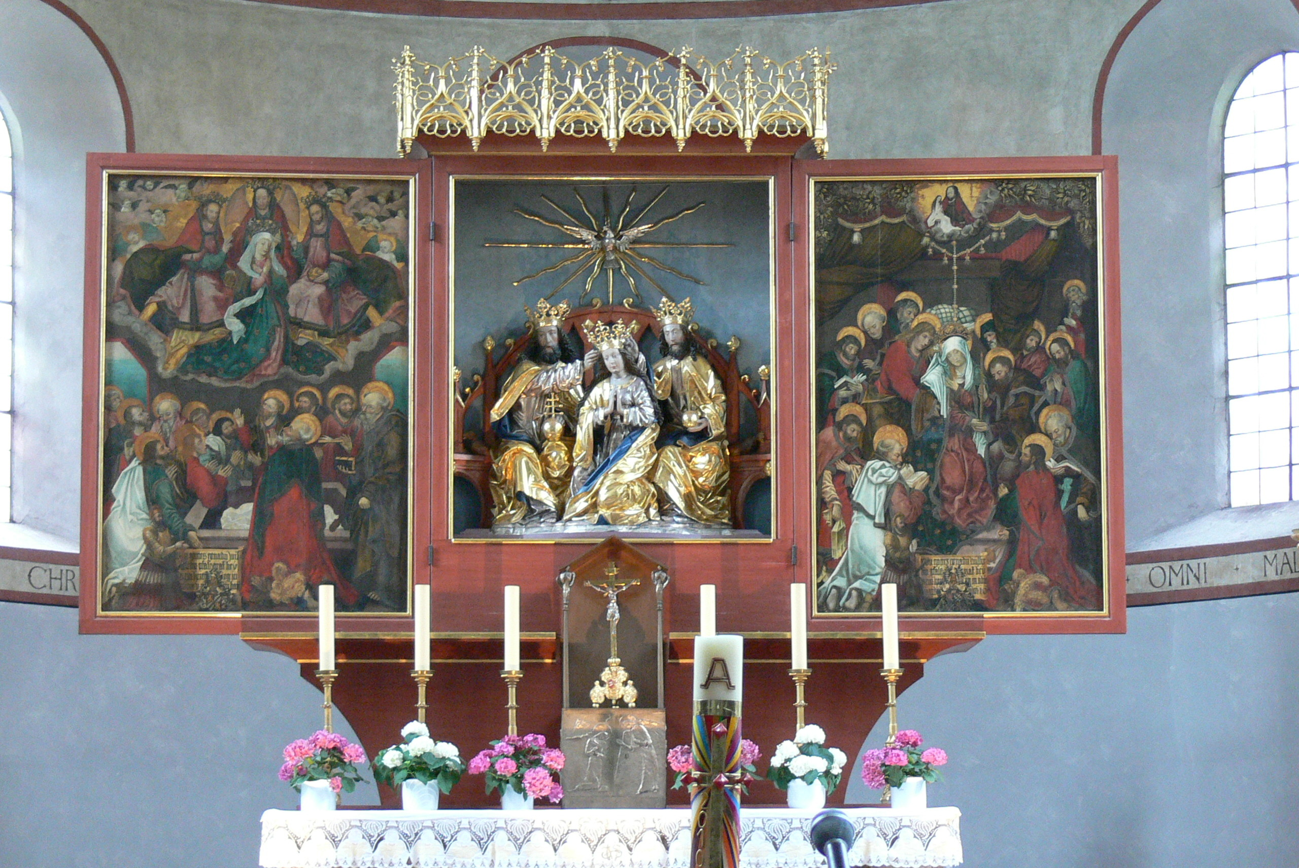 St.Zeno monastery church in Bad Reichenhall. Central altar, assembled in 1962 out of various gothic parts.